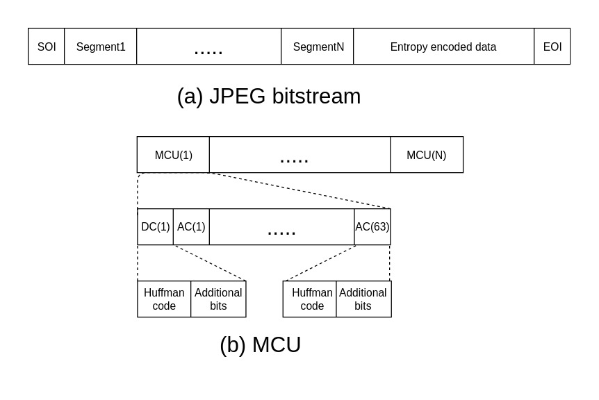 the structure of jpeg bitstream